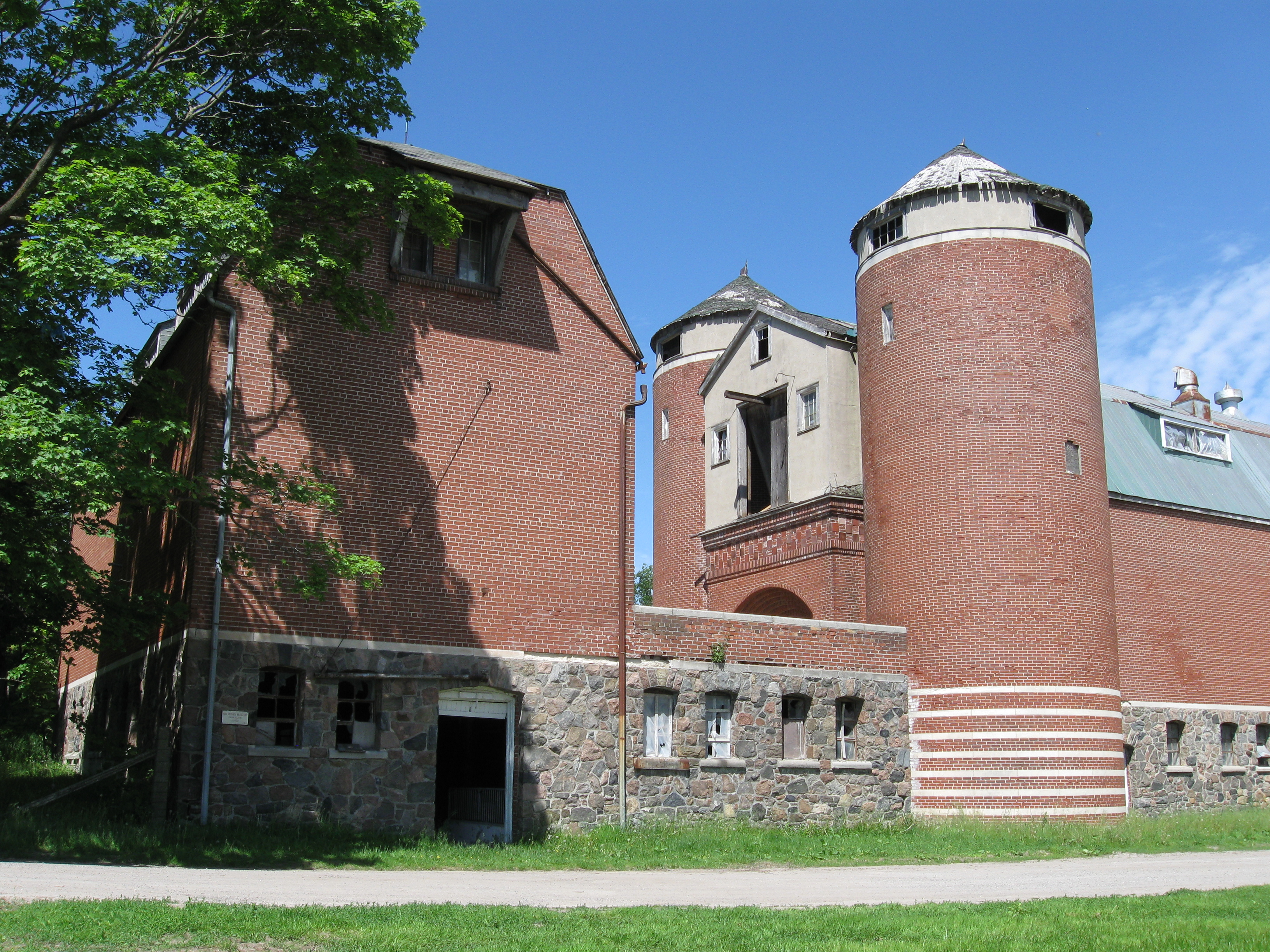 Henry Pellatt's barn complex at the now Wikipedia:Mary Lake Augustinian Monastery. The plaque on the building reads "Sir Henry Pellatt, Financier, circa 1920 date QS:P,+1920-00-00T00:00:00Z/9,P1480,Q5727902"